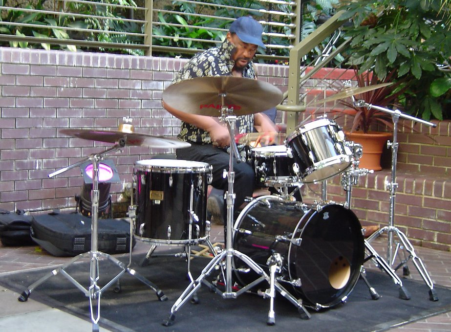 Louis Moholo at Jazz Britannia Barbican 12th February 2005